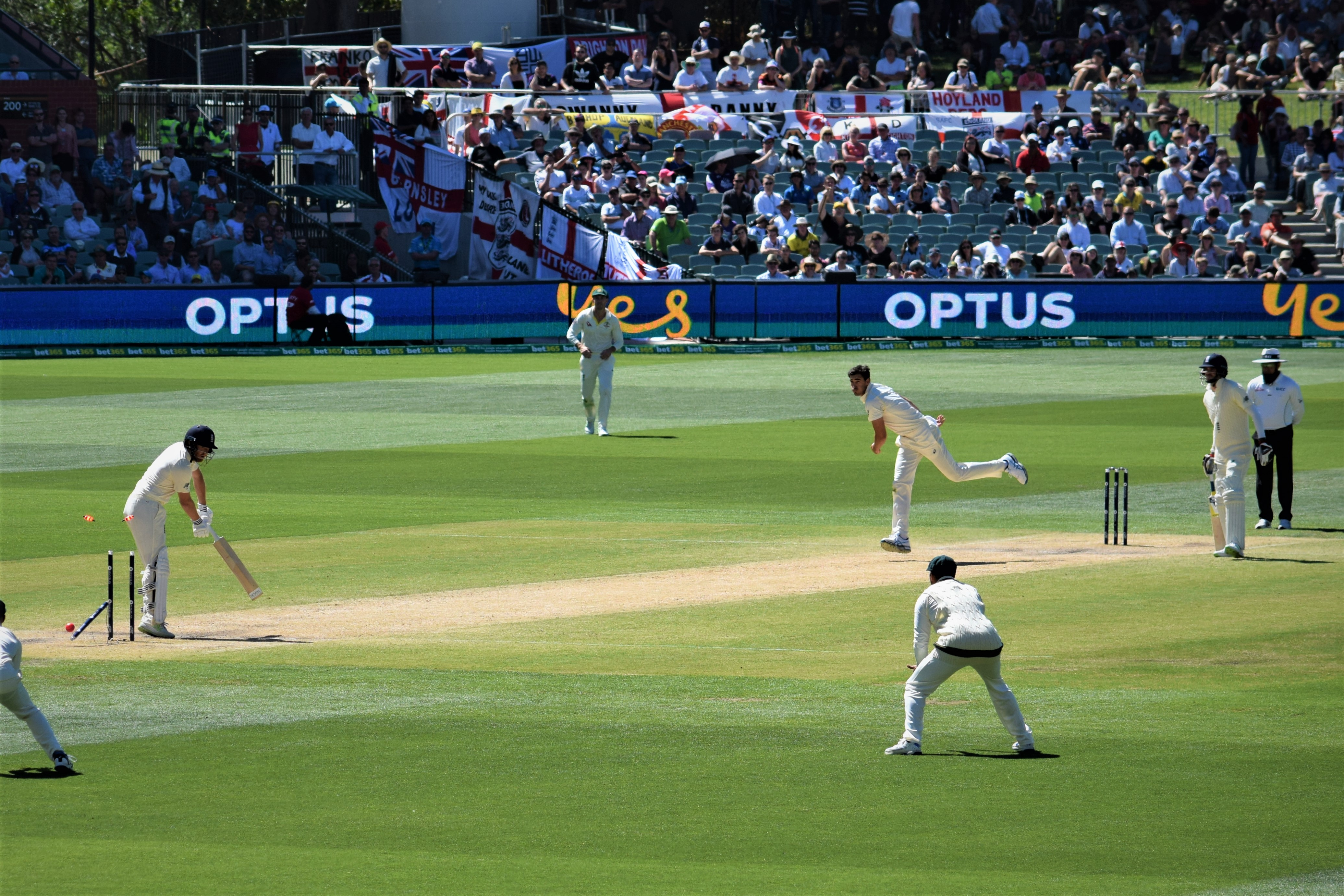 Jonny Bairstow bowled by Mitchell Starc. Australia beat England by 120 runs in 2nd Ashes (Day|Night) test at Adelaide Oval